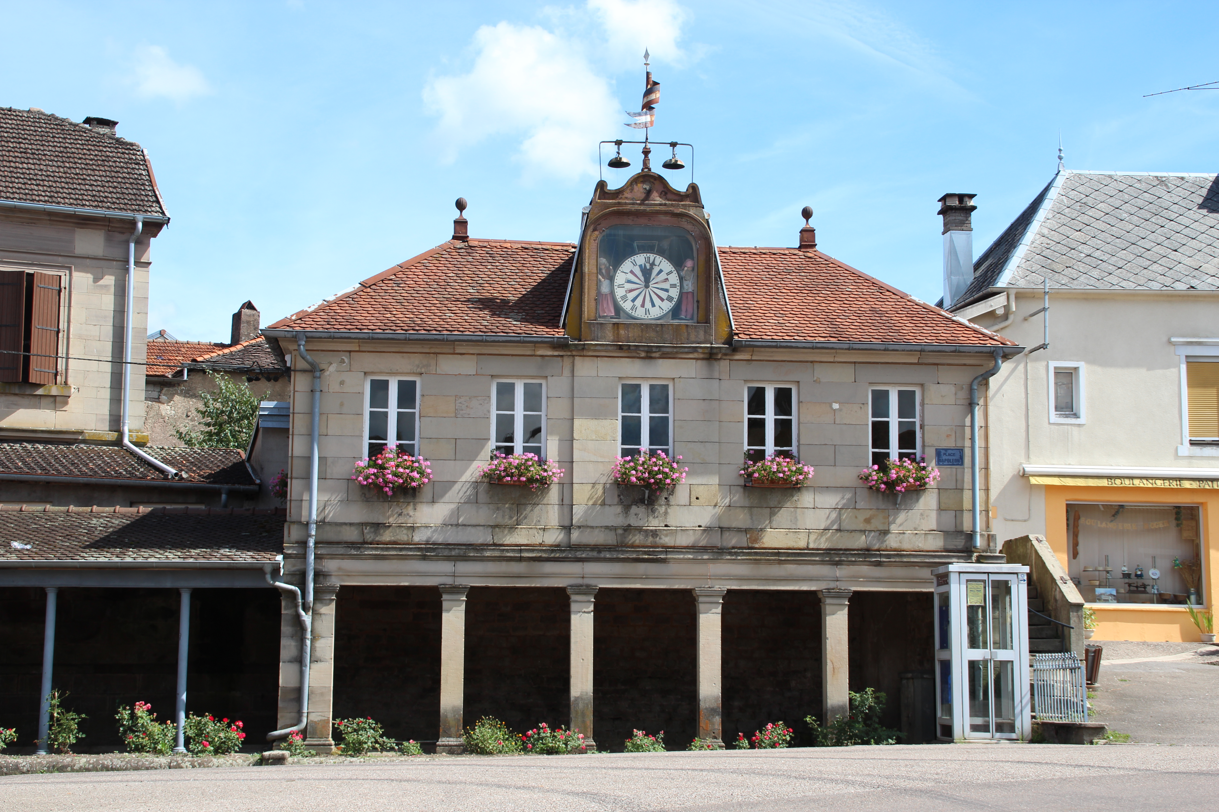 Town hall - wash house in Bouligney, France.